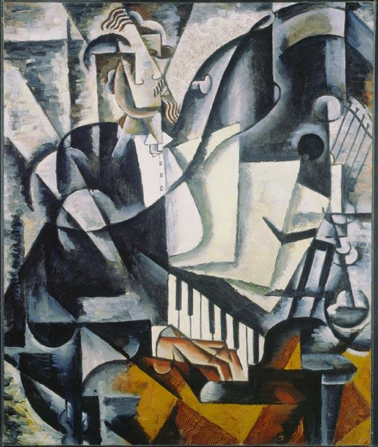 The Pianist